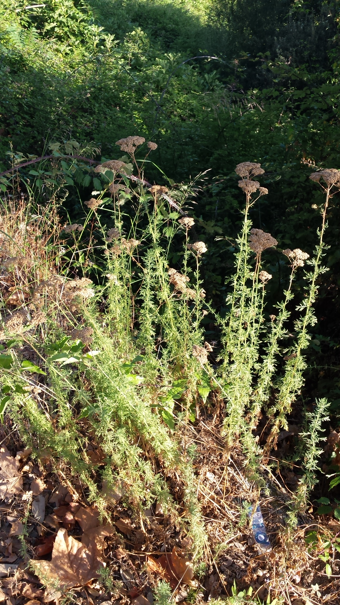 Achillea ligustica from Corsica